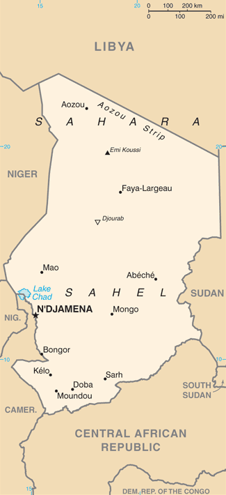 Chad map from CIA World Factbook, converted from original GIF format (July 2011 version showing South Sudan)